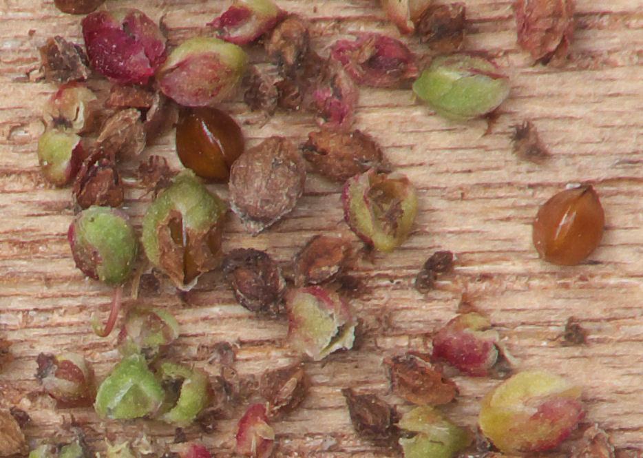 Rumex acetosella fruits and seeds